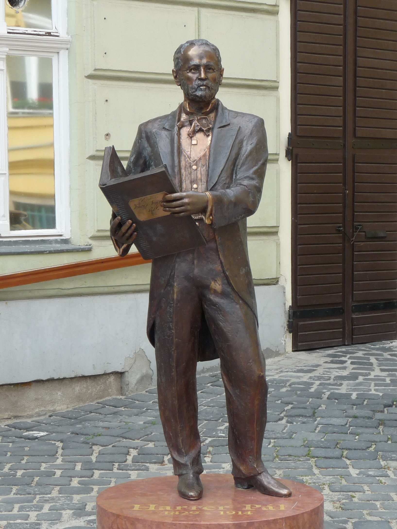 Statue of Pál Harrer (1829–1914). The Hungarian politician was the first and last mayor of Óbuda before the unification with the towns Buda and Pest in 1873. The life-size bronze statue sculpted by László Kutas was unveiled on March 5, 2010 in Óbuda next to the town-hall.